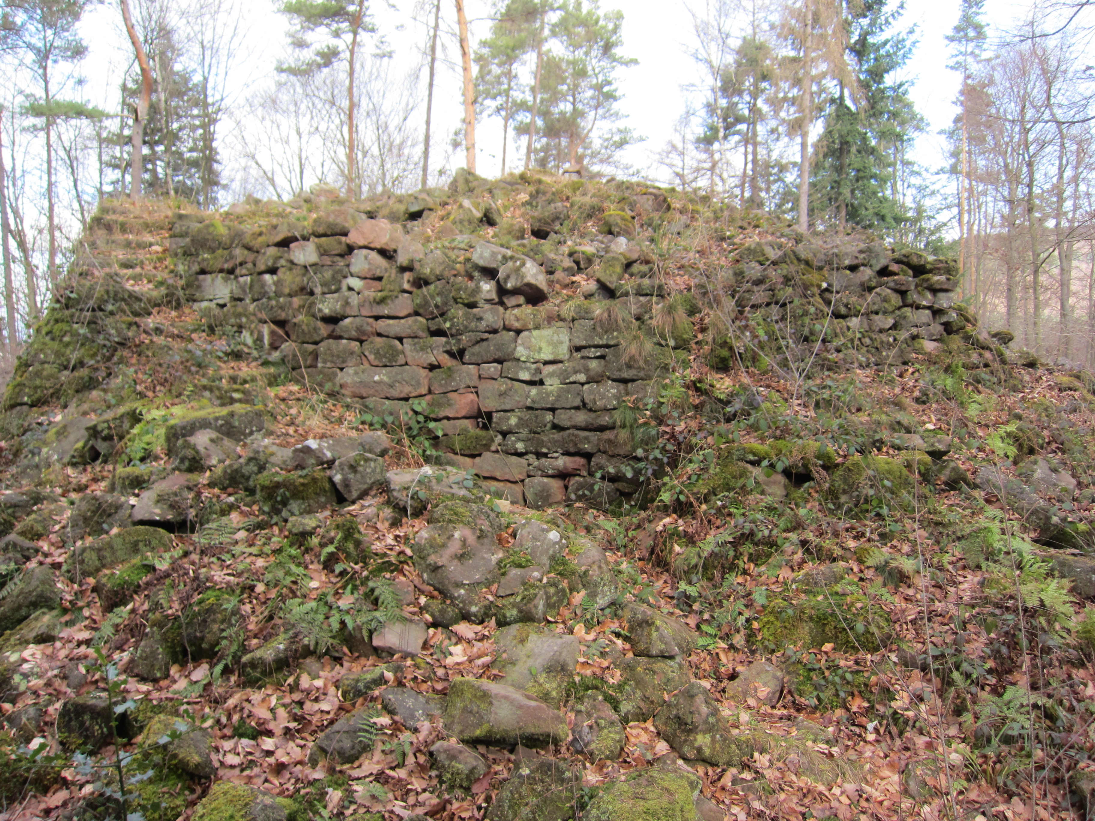 Heidenkeller, pyramid, view from southeast